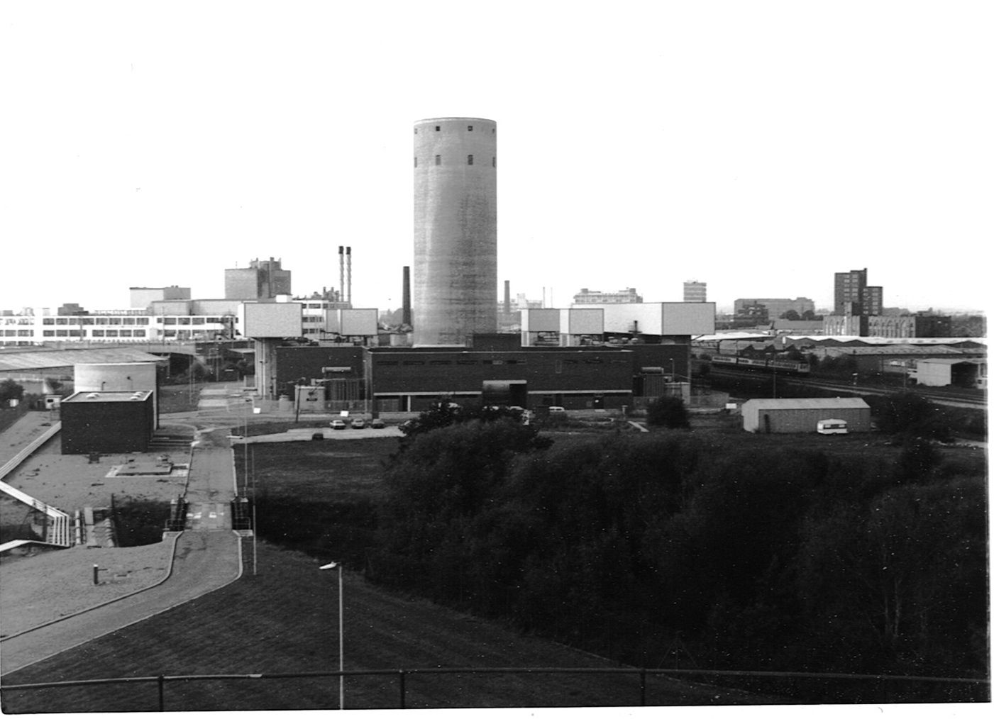 Bulls Bridge CCGT Power Station. View from the Oil Farm looking west towards Hayes